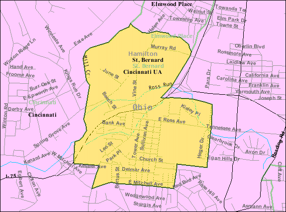 Map of St. Bernard, a city in Hamilton County, Ohio, United States, with its boundaries at the time of the 2000 census.